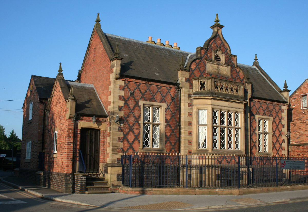 39 Welsh Row, Nantwich, Cheshire